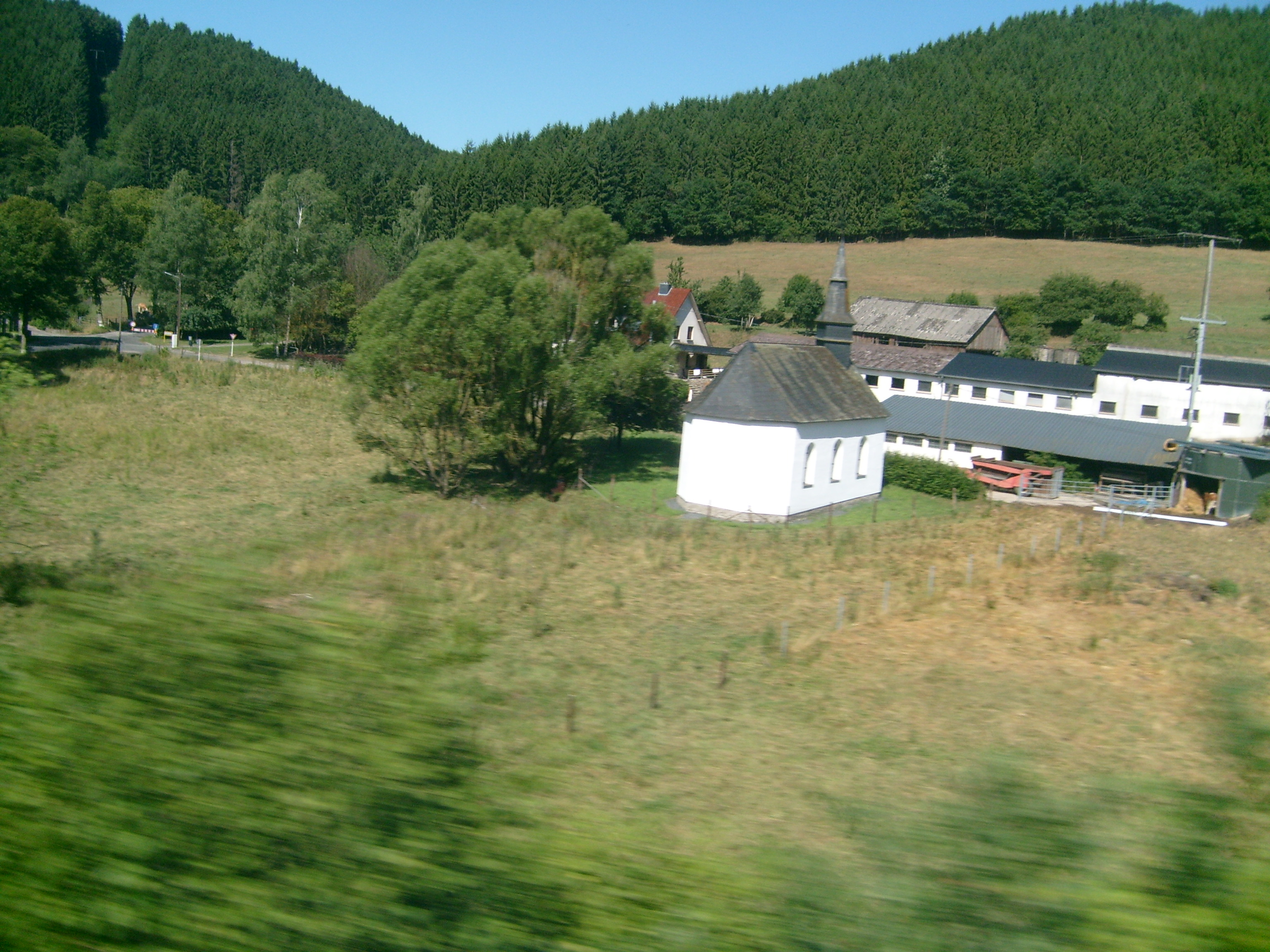 The village of Mecher near Clervaux, Luxembourg. Picture taken from a passing train.